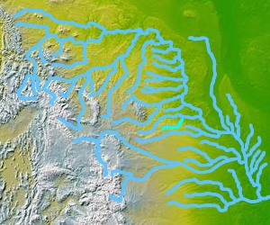 Little White River © 2004 Matthew Trump